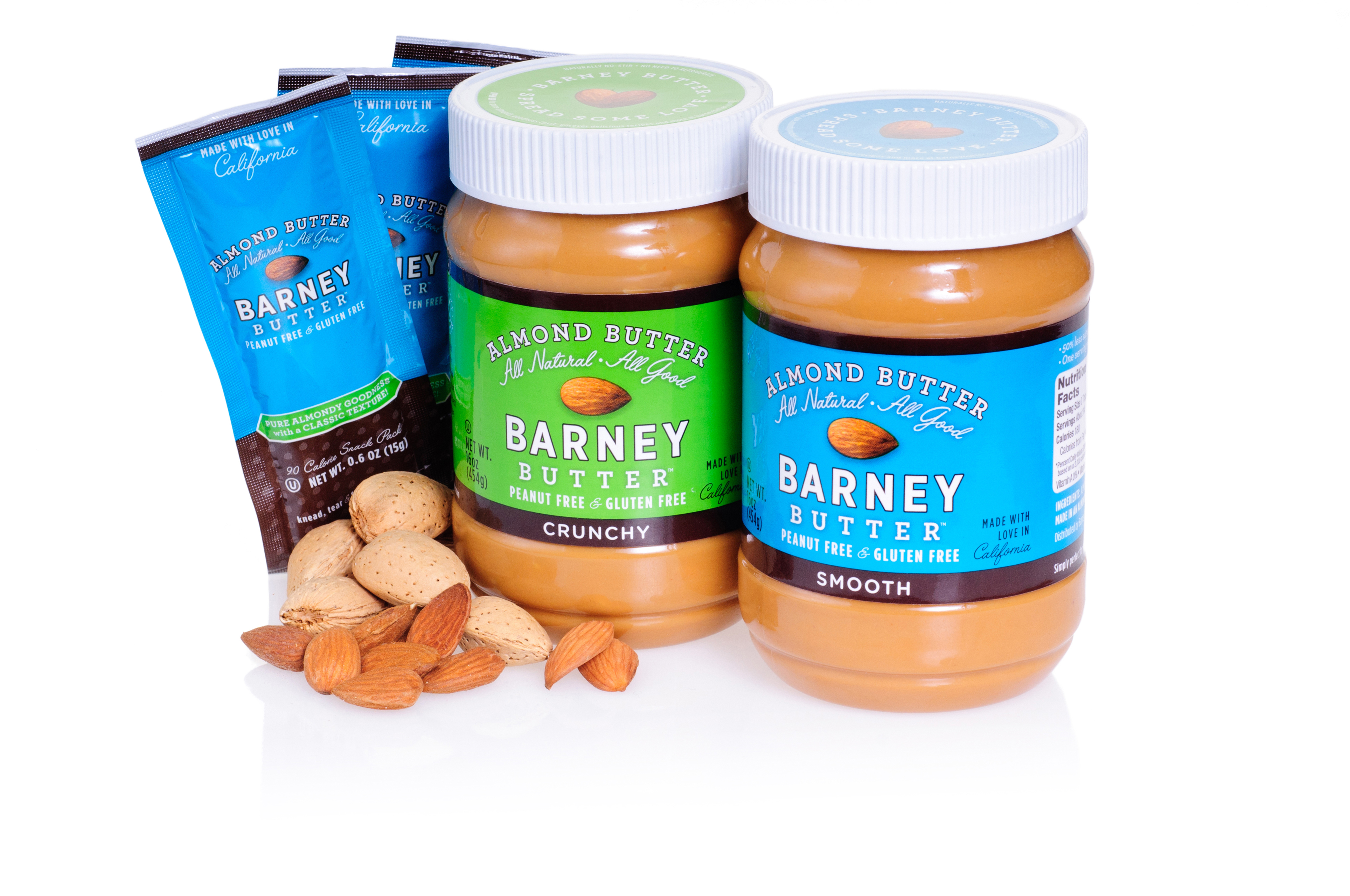 This is how a bottle of Barney butter looks.